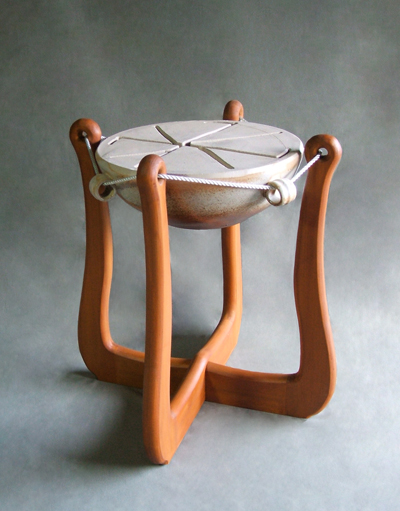 Taiko-no-hibiki Sui-ru-on - a modern musical instrument that originates in the ancient Japanese culture.